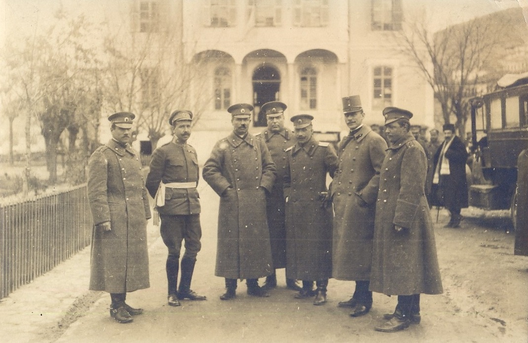 General Nikola Zhekov, Kyustendil, Bulgaria, 1917.